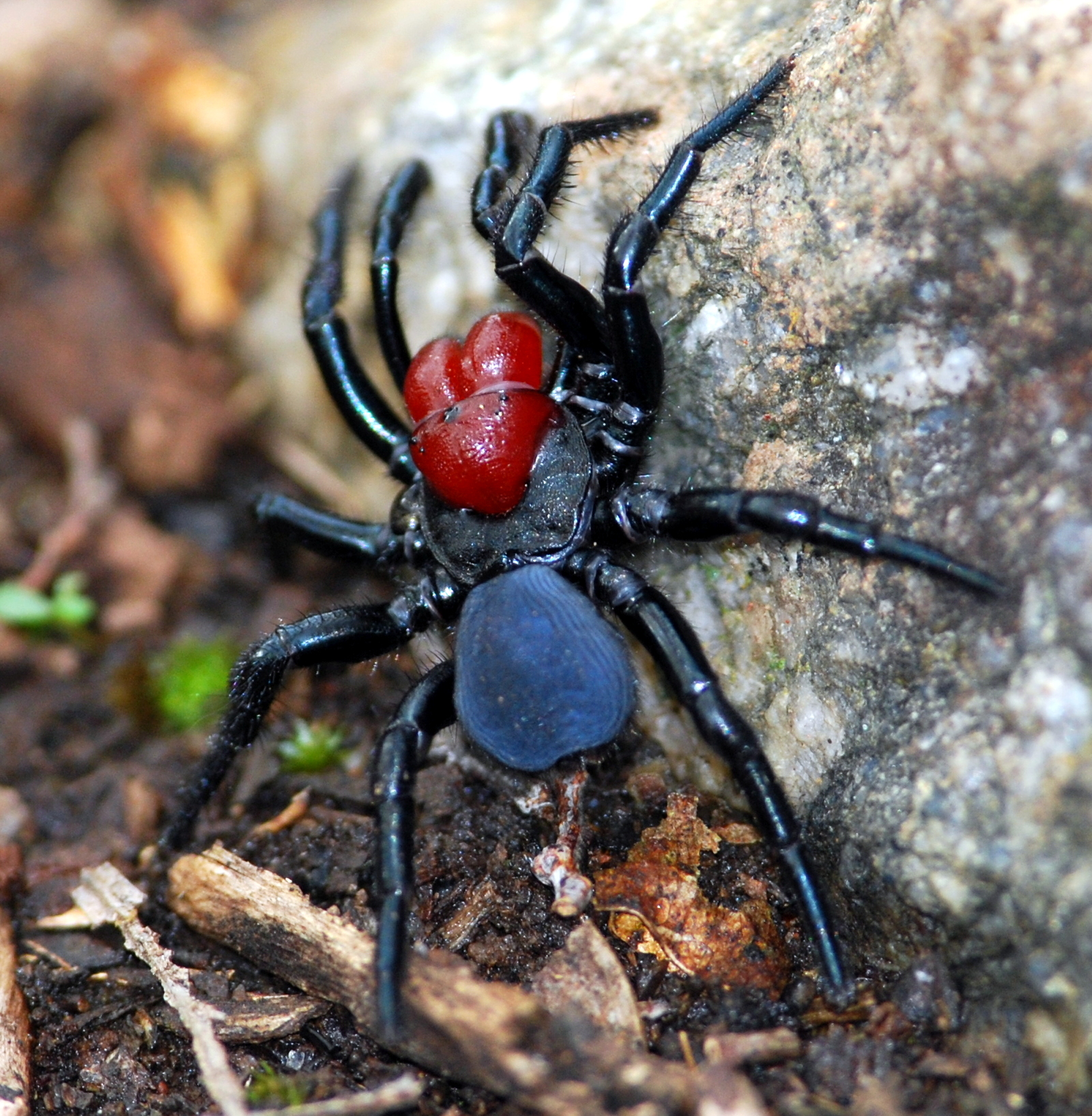 A male Mouse Spider (Missulena occatoria) in Para Wirra Recreation Park, South Australia